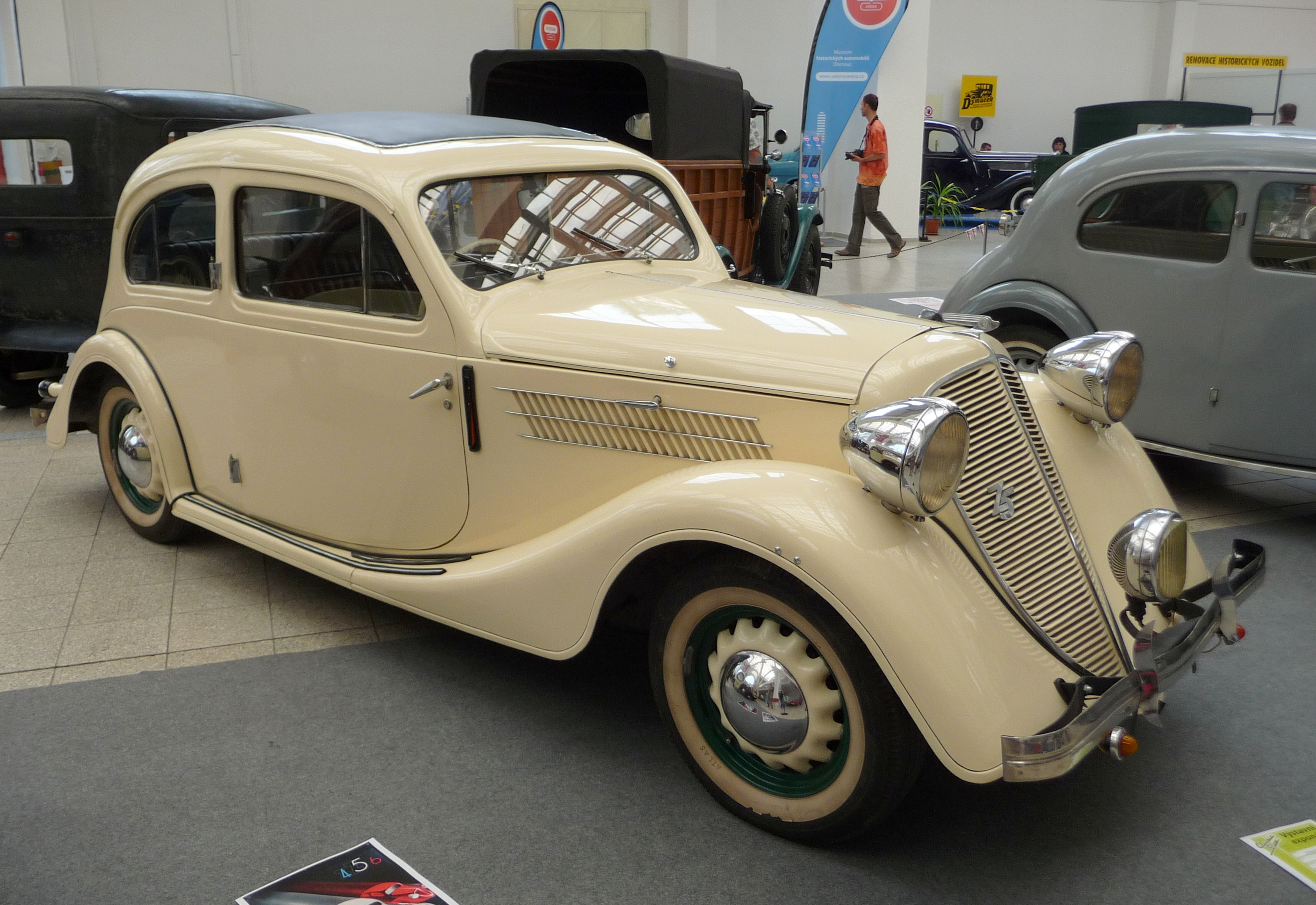 Zbrojovka Z 5 Express, rok výroby 1936, Classic Show Brno 2011, The Brno Exhibition Grounds -10 -5 -3 -2 ◄ ► +2 +3 +5 +10